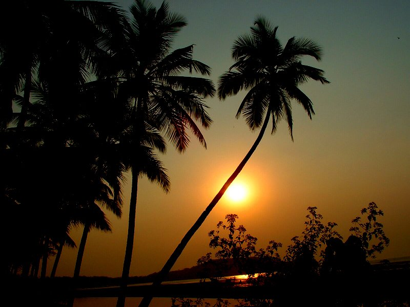 Sunset on Chapora River Banks, Goa, India Image taken by myself: Dominik Hundhammer (user:zerohund), January 2003.